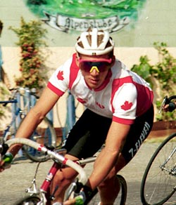 Brian Walton in his Canadian National Road Cycling Champion jersey riding for 7-Eleven in the 1988 Tour de White Rock criterium.